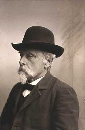 Jacob Kornerup (1825-1913), Danish archaeologist and painter